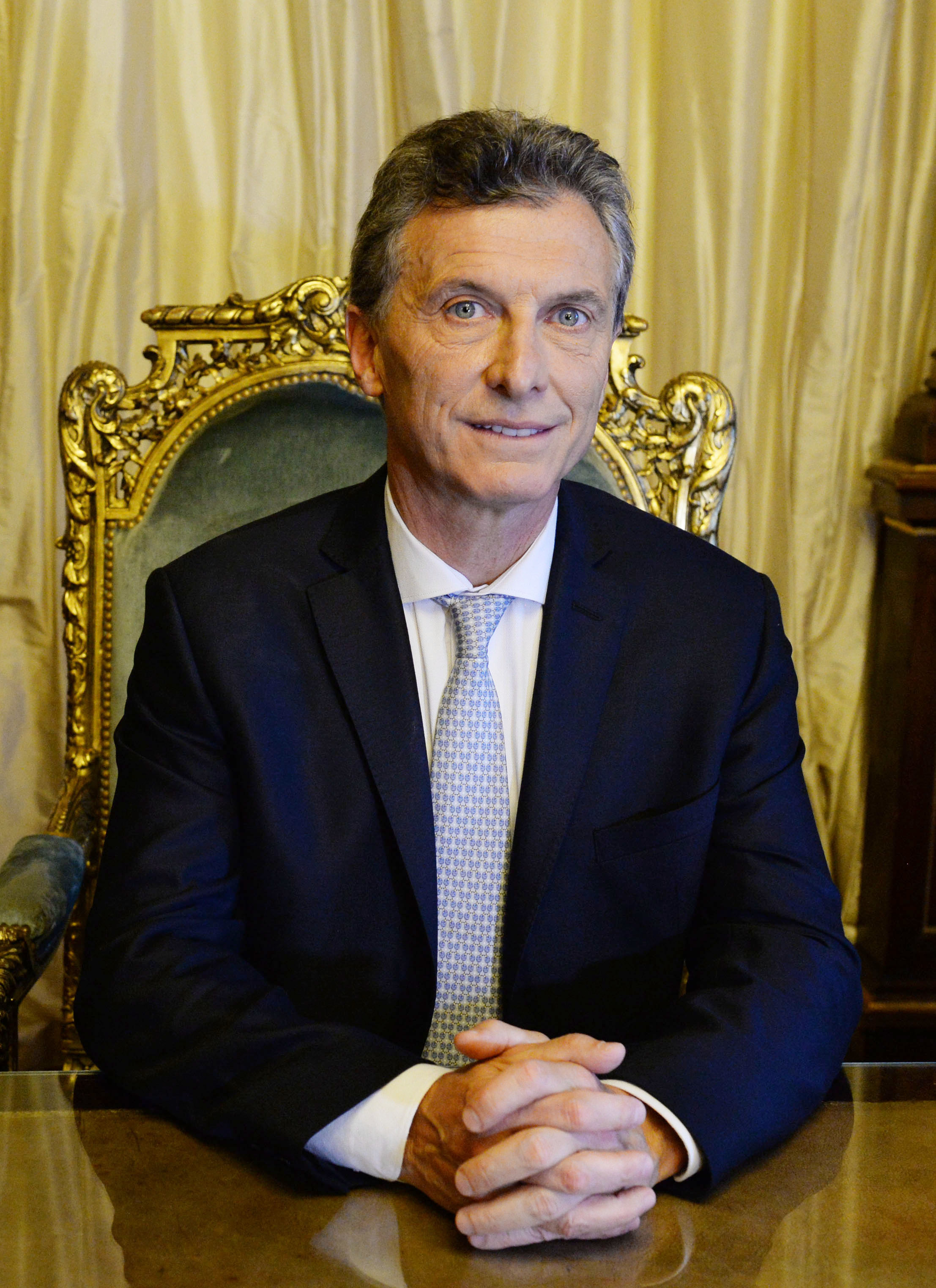 Official portrait of the President of Argentina, Mauricio Macri, sitting on the Rivadavia's arm chair in Casa Rosada.